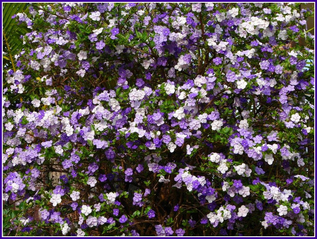 Brunfelsia bonodora Brunfelsias (often incorrectly spelt Brunsfelsia) are evergreen shrubs from tropical America. The flowers are very sweetly perfumed and appear in spring. When they first open they are a violet colour, fading to lavender blue and then white, with the three colours present on the bush at the same time. Location: my backyard garden, Brisbane :)